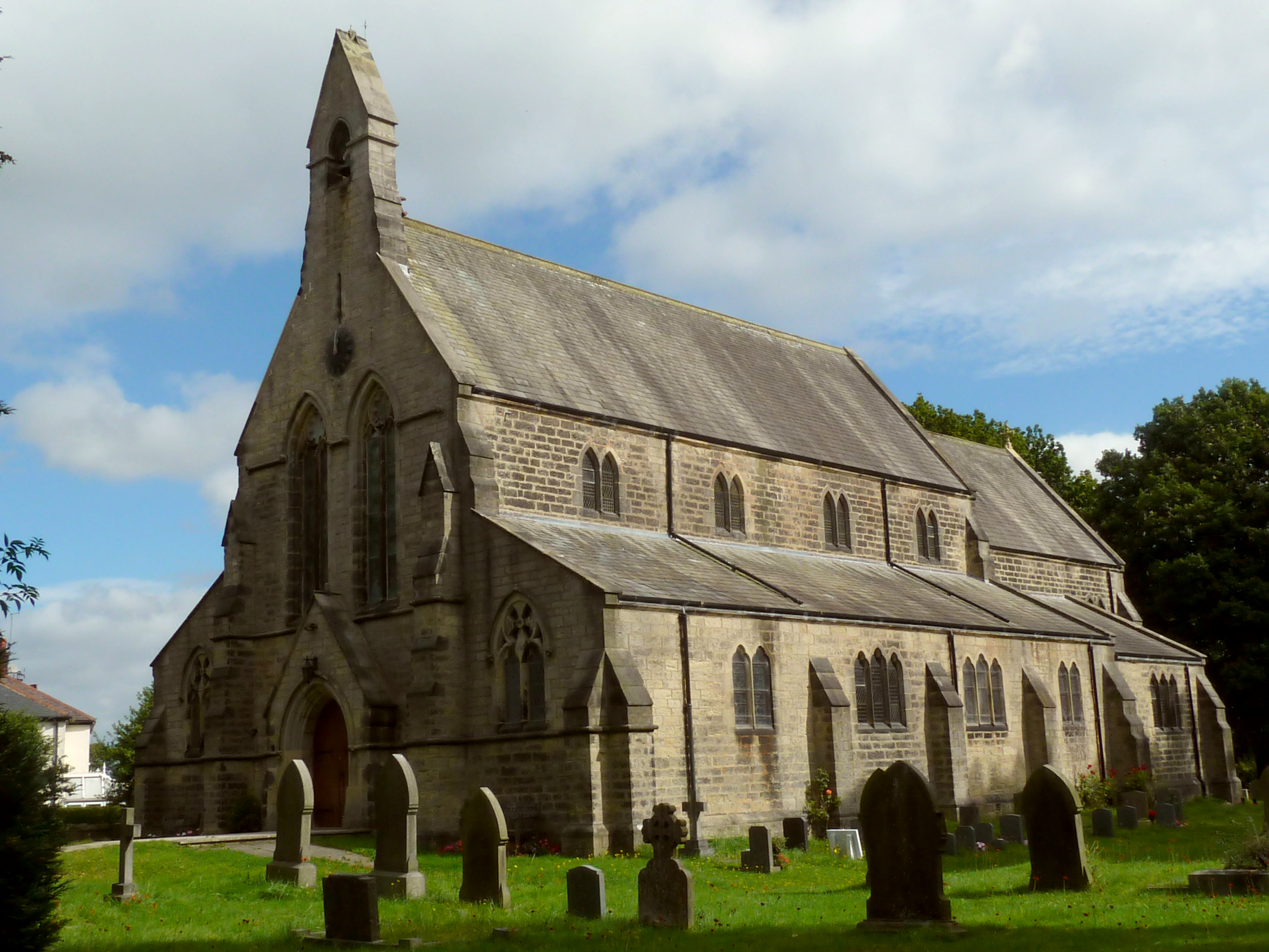 Church of St Thomas the Apostle, Anglican parish church at Killinghall, North Yorkshire, England. Designed by William Swinden Barber in 1879. South-west corner.